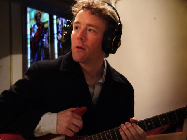 Alan Sparhawk in 2004 recording at Sacred Heart in Duluth. (Photo by Joe Cunningham)